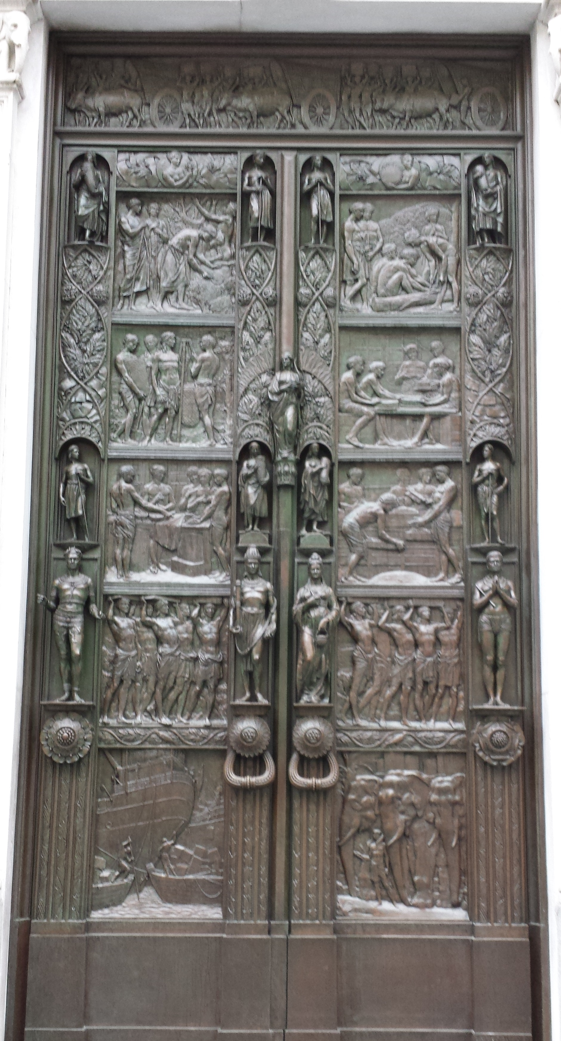 The Salada Tea Doors, designed by Henry Wilson, at the former Salada headquarters in Boston's Back Bay. Other information Cropped from the original.